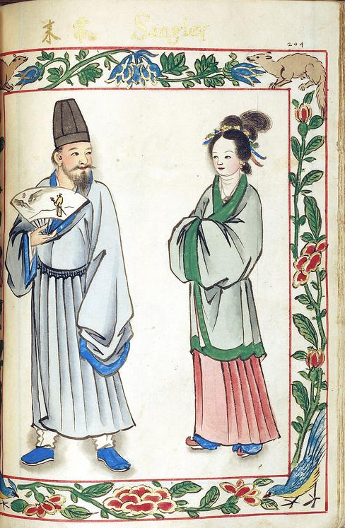 Chinese inhabitants in the Pre-hispanic Philippines Archipelago